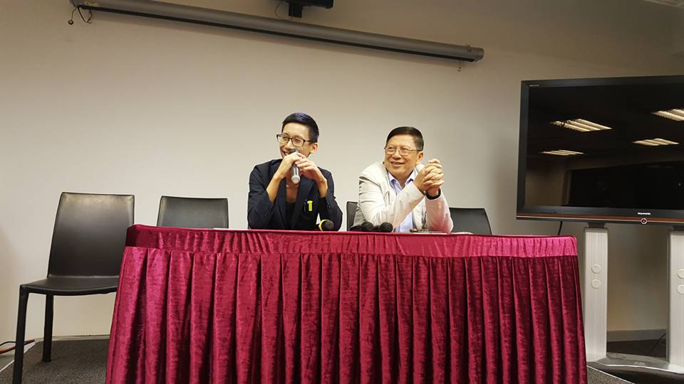 Stephen Shiu Yeuk-yuen